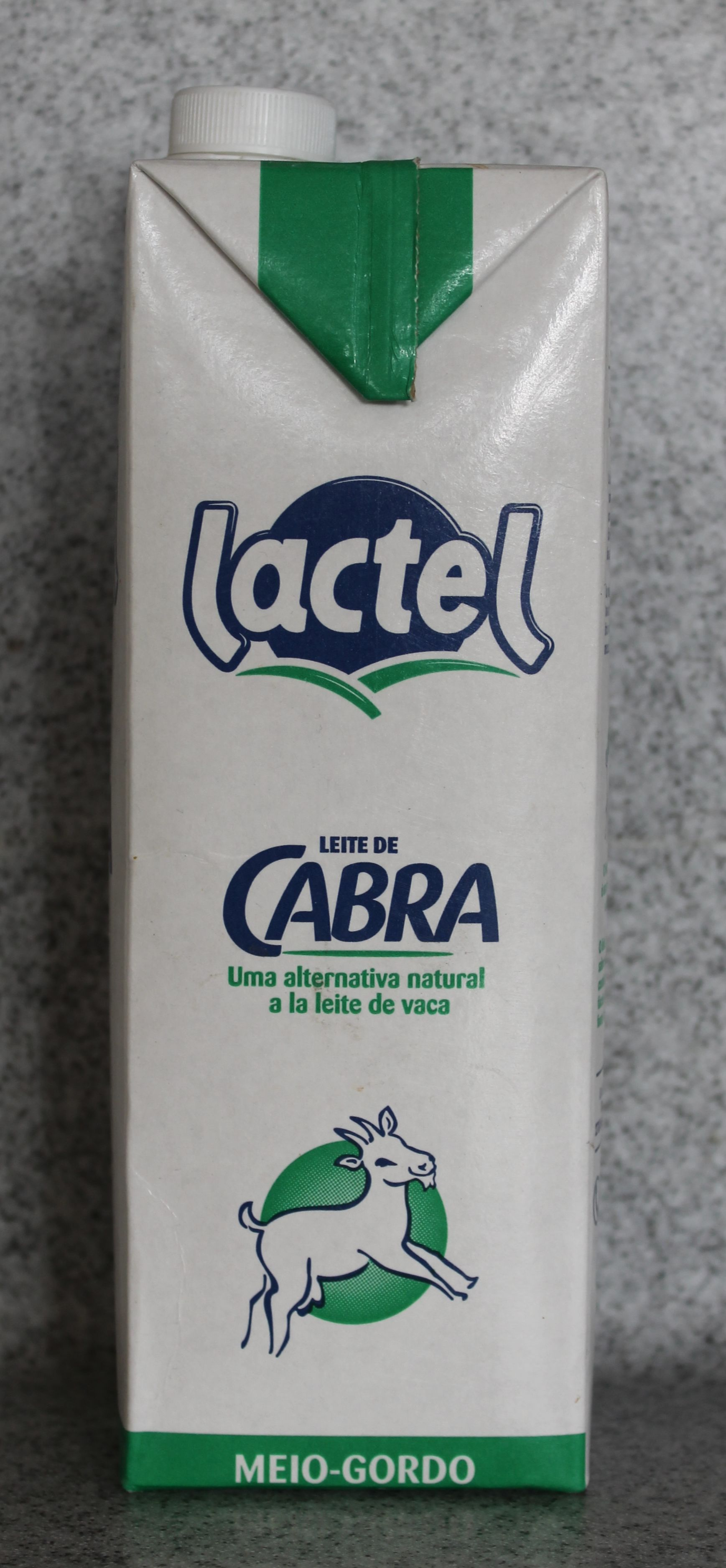 Goat milk, Spain